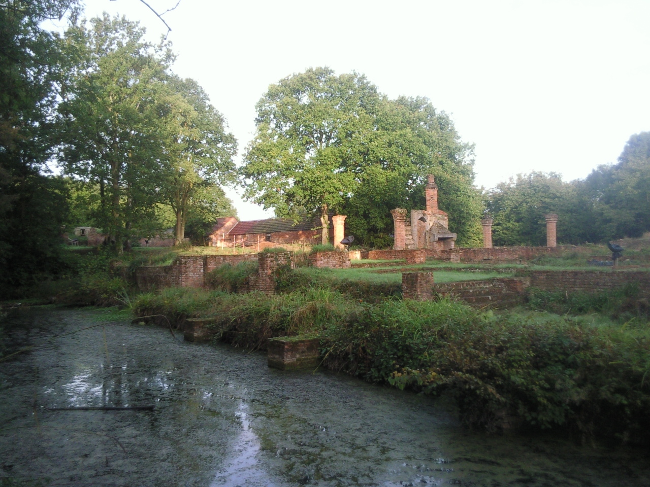 Scadbury Manor moated manor house